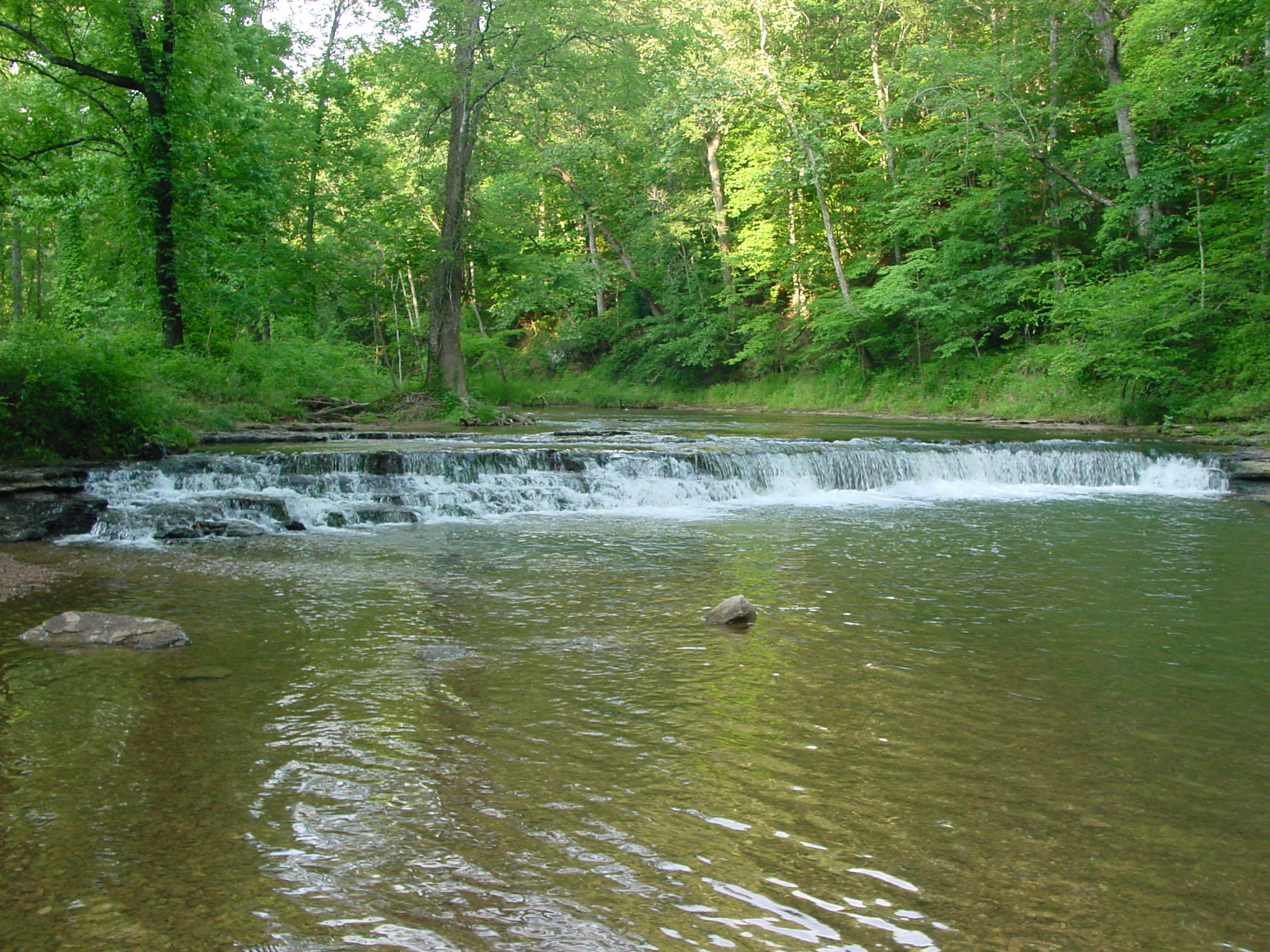 Crockett Falls in David Crockett State Park, located a half mile west of Lawrenceburg, Tennessee.